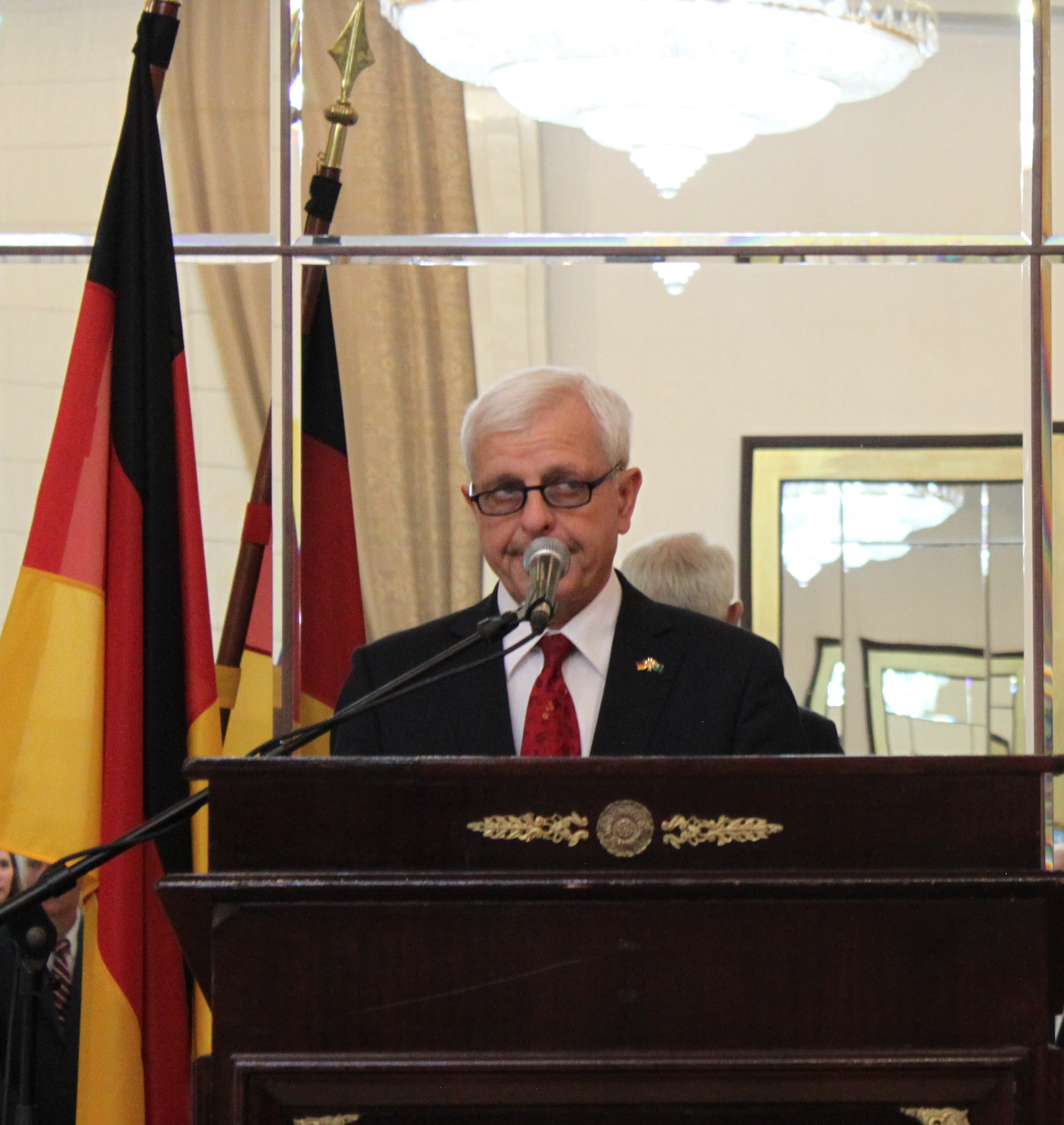 German Embassador Helmut Wolfgang Brett giving the reception speech on German Unity 2013 in Ashgabat, Turkmenistan